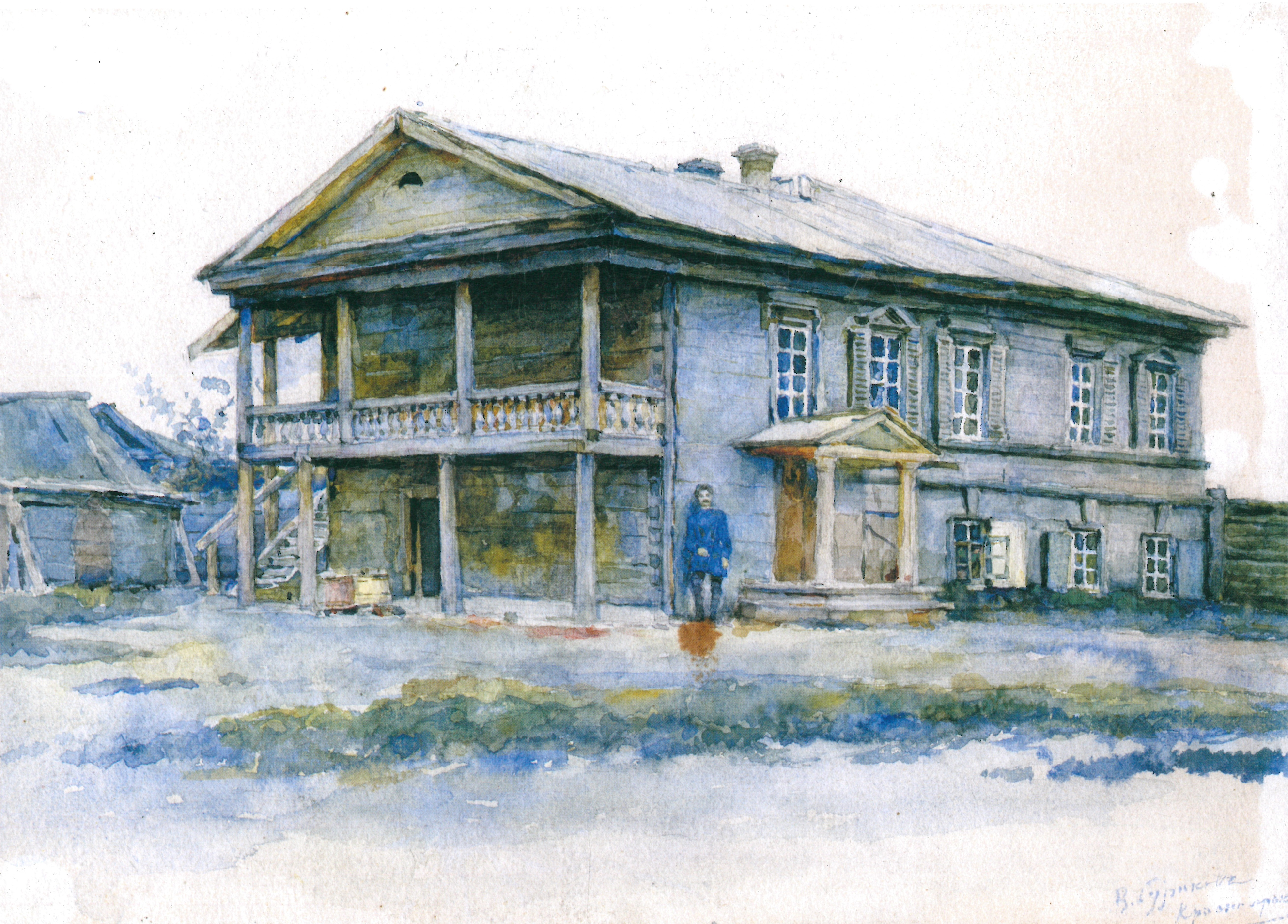 Surikov's Family house in Krasnoyarsk (drawing by Vasily Surikov, 1890)